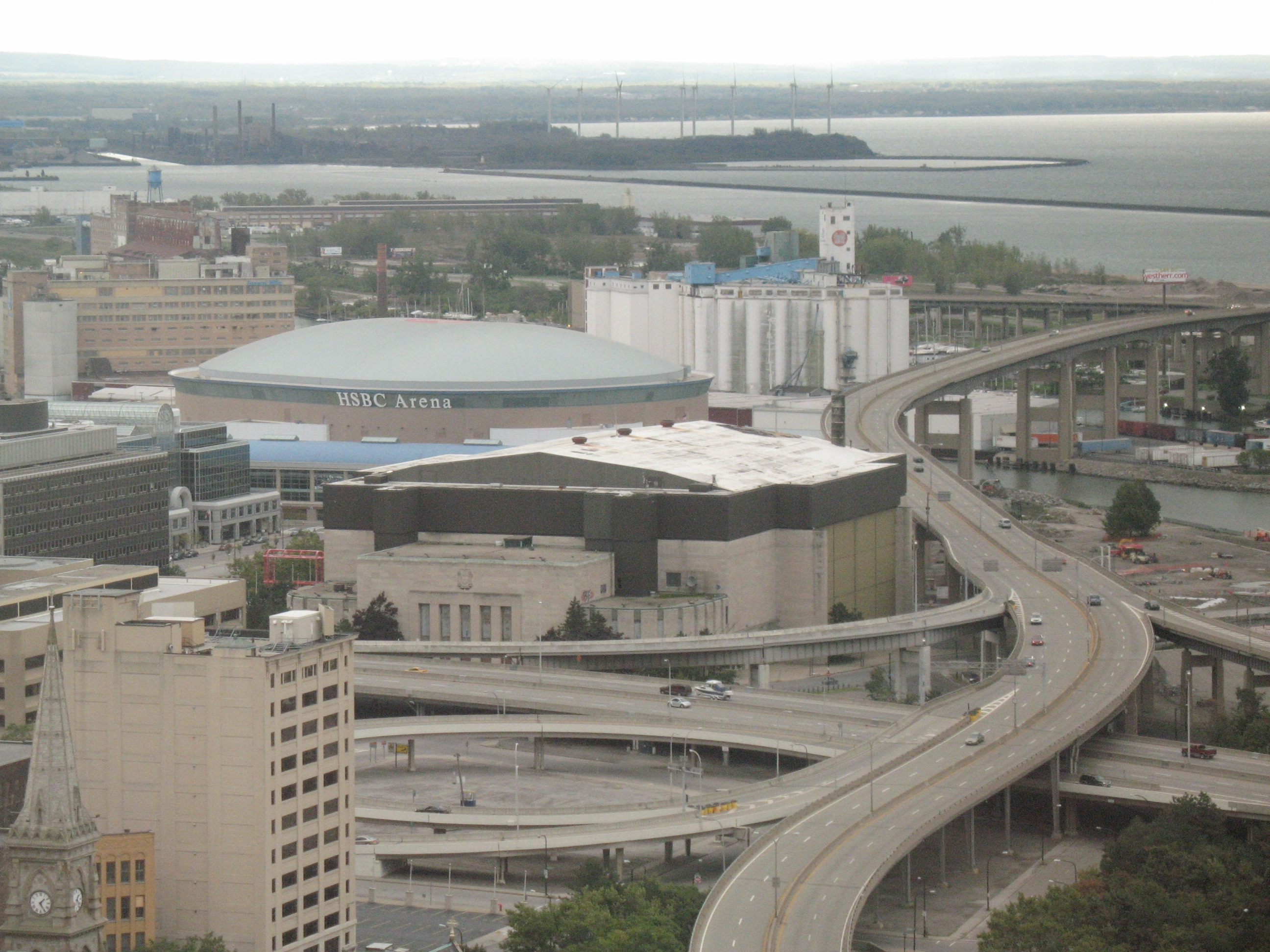 Two homes for the Buffalo Sabres are visible: Buffalo Memorial Auditorium (1970-96, in front) and HSBC Arena (1996-present). Taken from the observation deck of Buffalo City Hall, October 14, 2007Sabres Country